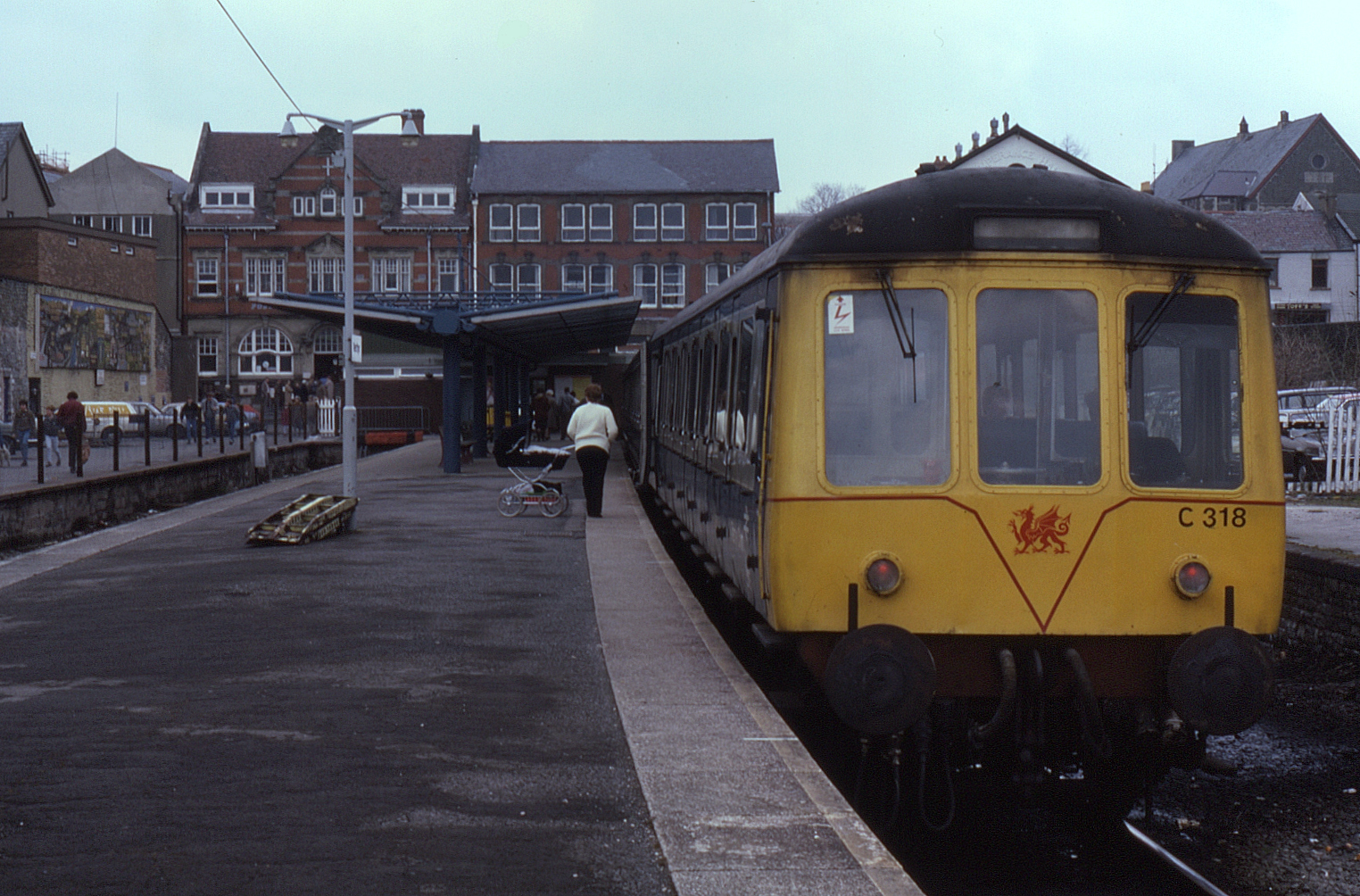 No excuse for including another end of the line shot from the South Wales Valley lines. Whilst many branches were visited just the once in July 1984, I revisited Methyr Tydfil twice in the next ten years or so on other trips. Seen on a visit on 4 April 1986 is Cardiff Canton allocated set C318 formed of cars 53197, 59369 and 53864.